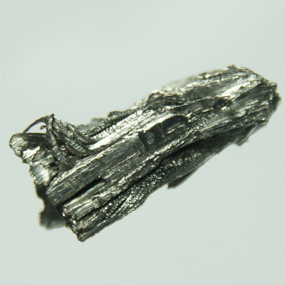 Ultrapure dysprosium dendrites. Original size in cm: 2 x 2